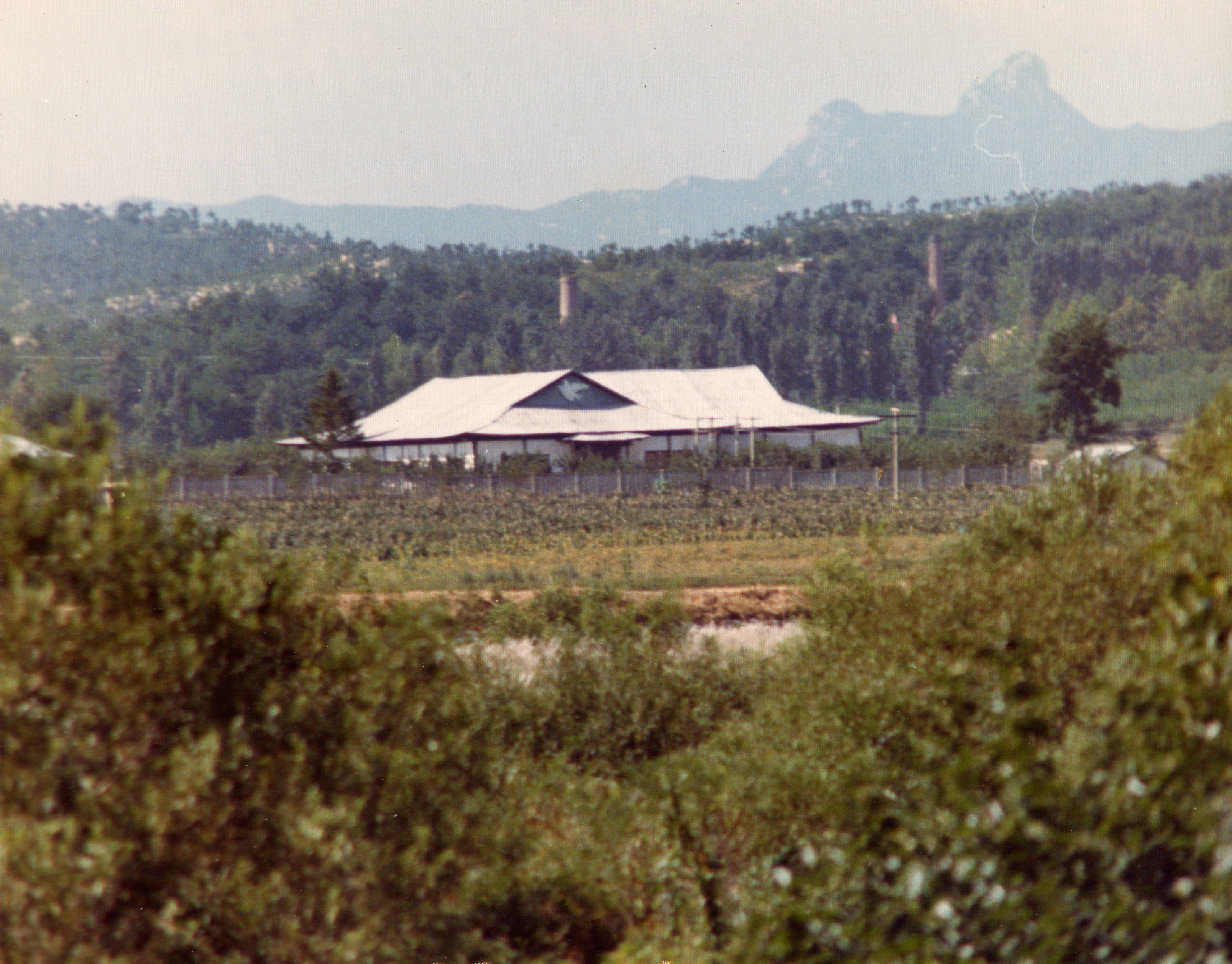 This is a picture I took in 1976 of the original Truce Building at Panmunjom. The North Koreans refer to as the Peace Museum. At the time (i don't know about now), the North Korean tours would always stop here to get the tour 'worked up' with anti-American feelings by showing doctored photos of Americans bayoneting Korean babies, President Kennedy eating Korean babies, and other such stuff. Once they left the 'Peace Museum', the tourists (only from other Communist countries) were chanting things like "yankee gansters leave Korea for Koreans" and Yankee Gangsters go home", etc. I also have pictures of a North Korean tour (of Angolans, right after the fall of Angola) with their signs and banners.